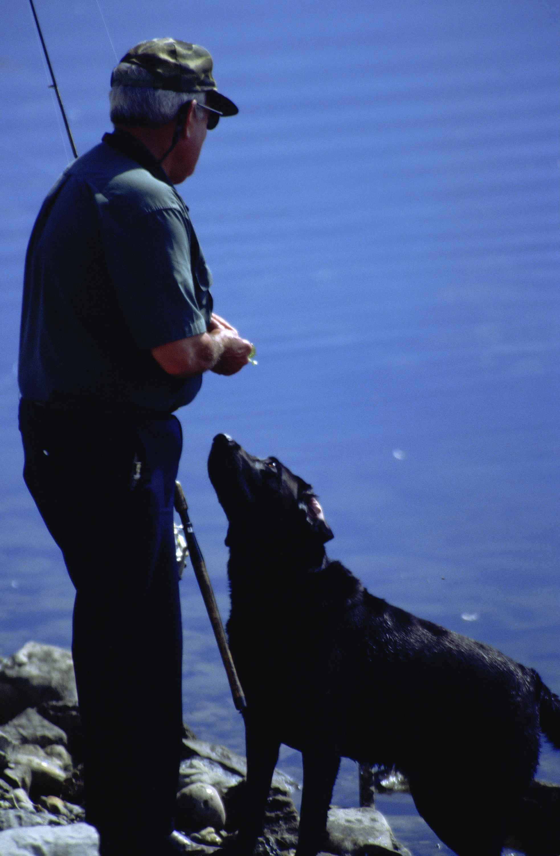 Image title: Man fishes with his dog at his side Image from Public domain images website